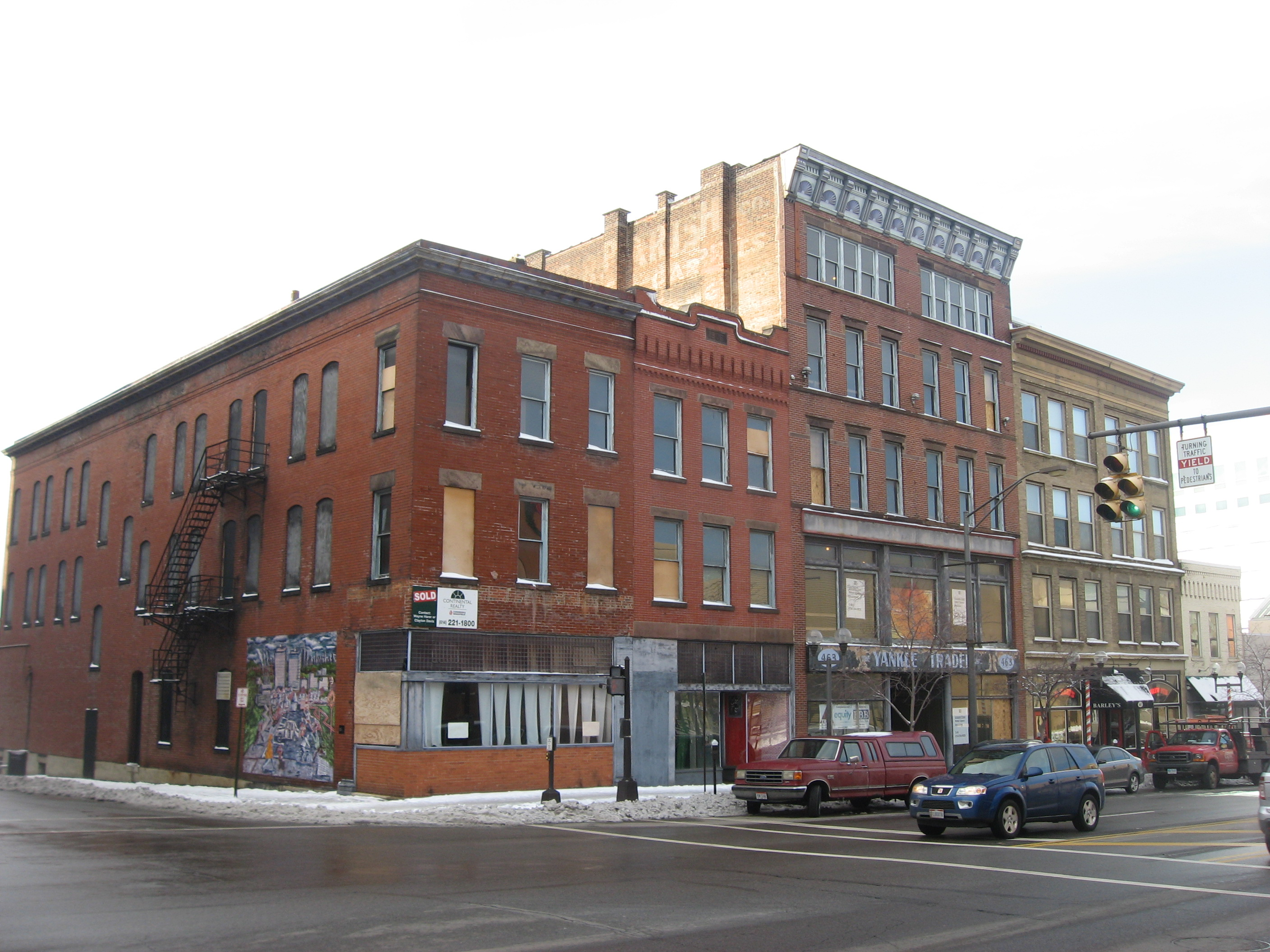 Buildings on the western side of High Street north of the Vine Street intersection in Columbus, Ohio, United States. These blocks are part of the North Market Historic District, a historic district that is listed on the National Register of Historic Places.